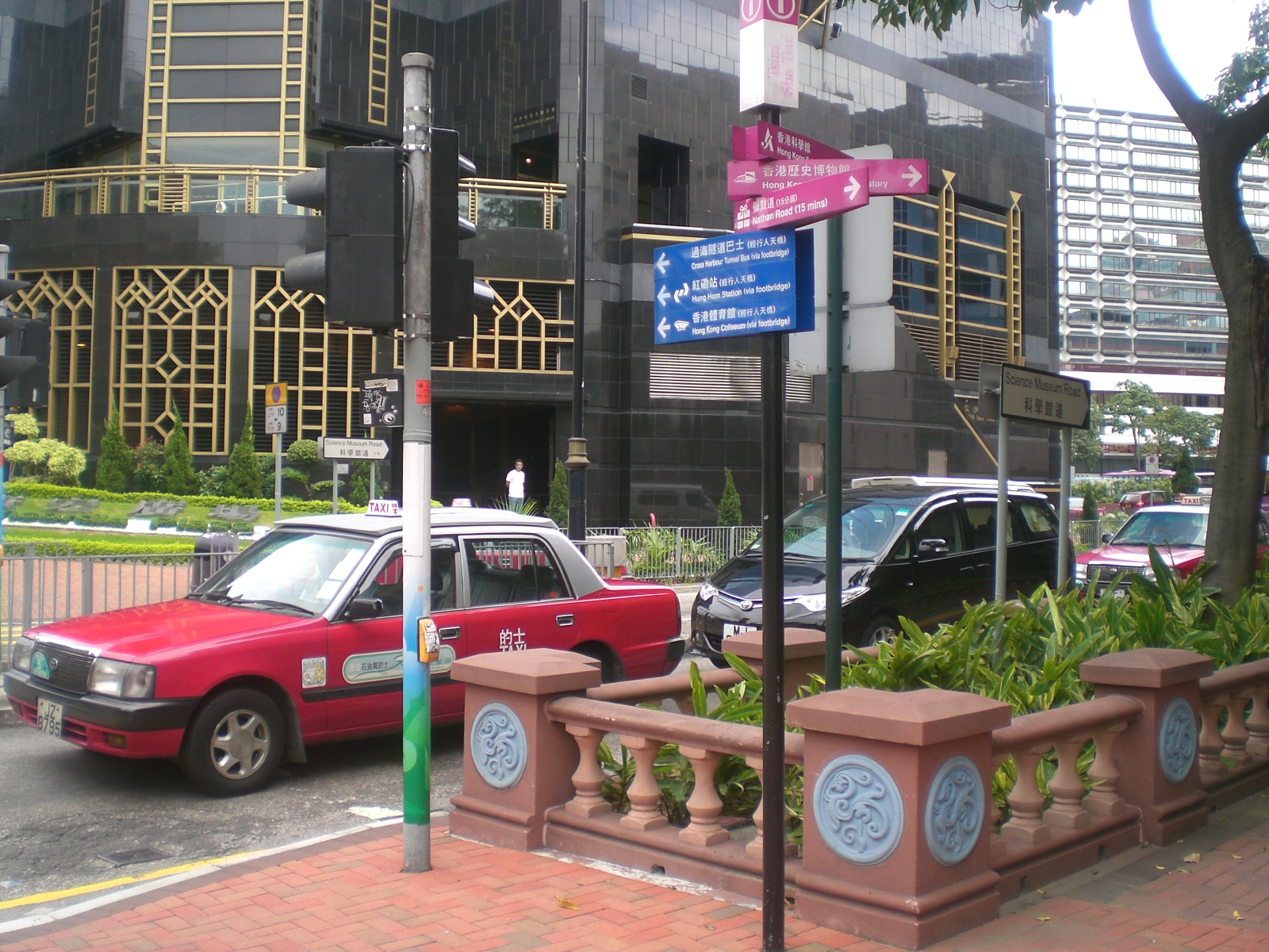 尖東科學館道近香港科學館